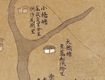 Part of Kangxi Taiwan Map(康熙臺灣輿圖)